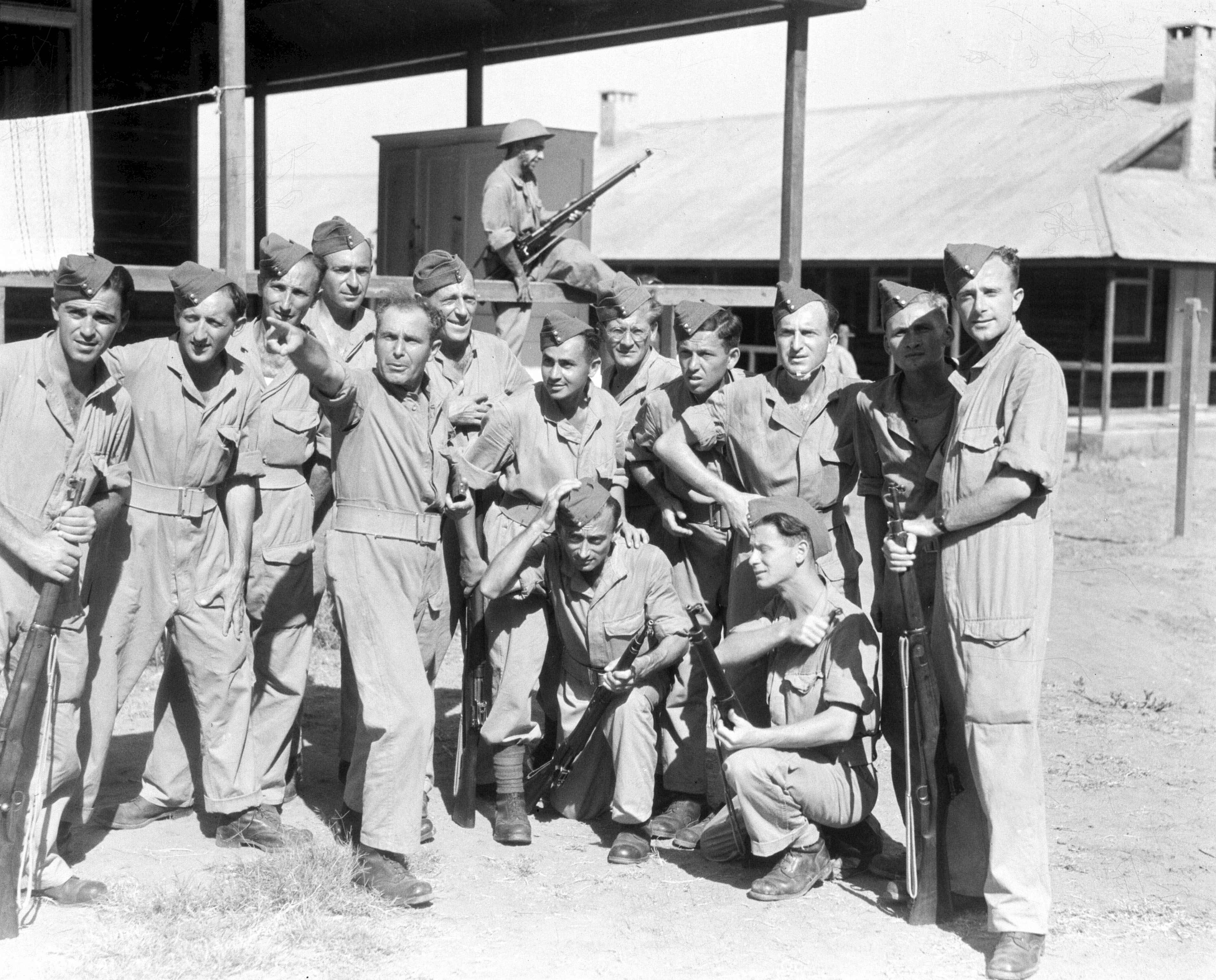 MEMBERS OF THE JEWISH ENTERTAINMENT TROUPE OF THE BRITISH ARMY CAMP IN SARAFAND. IN THE C POINTING, ZVI FRIEDLAND.